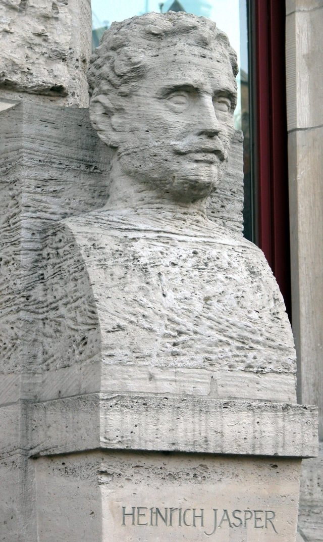 Brunswick: Heinrich Jasper, several times Prime Minister of the Free State of Brunswick, social democratic politician. Murdered in February 1945 in Bergen-Belsen concentration camp by national socialists. Sculpture from 1951 by Jakob Hofmann.